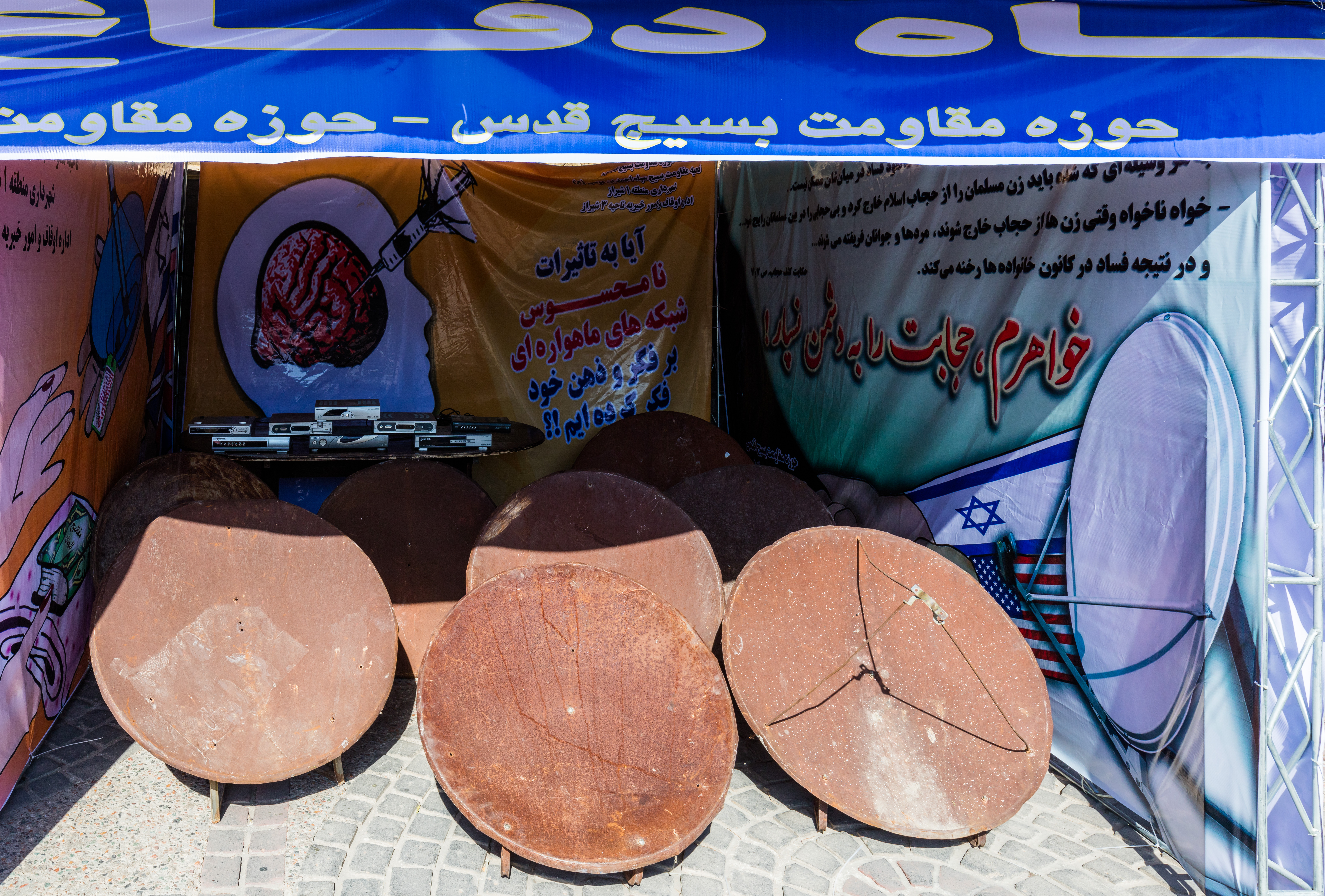 Antennas selling stand, Shiraz, Iran